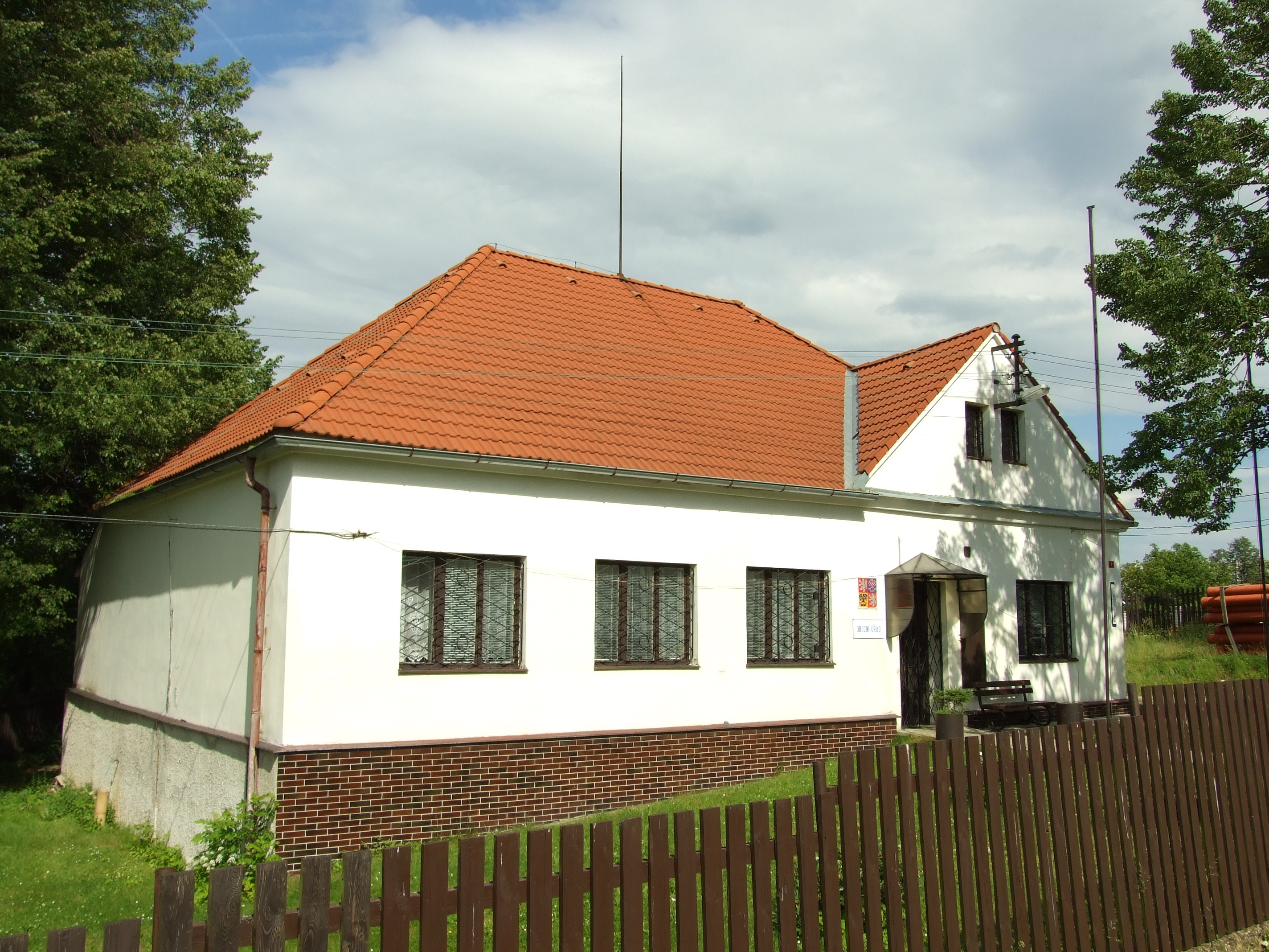 Town of Voznice and its surrounding nature in Central Bohemian region, CZhelp